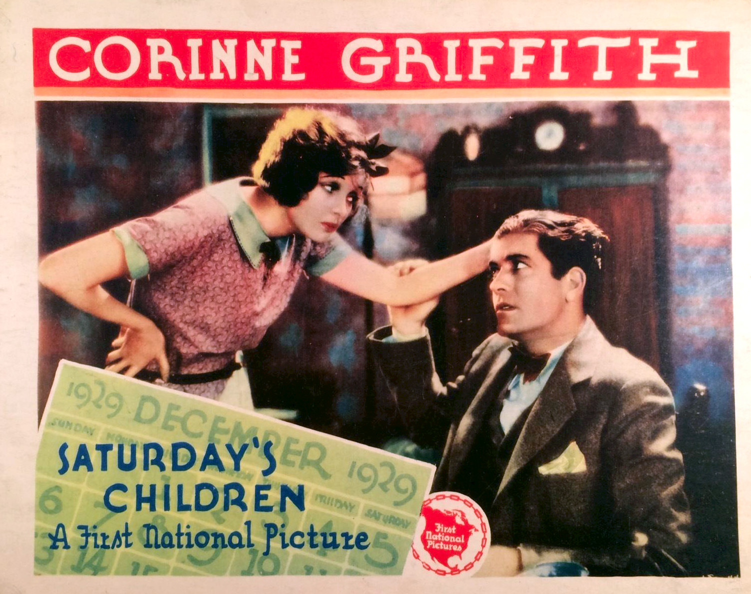 Lobby card for the American romantic comedy film Saturday's Children (1929).